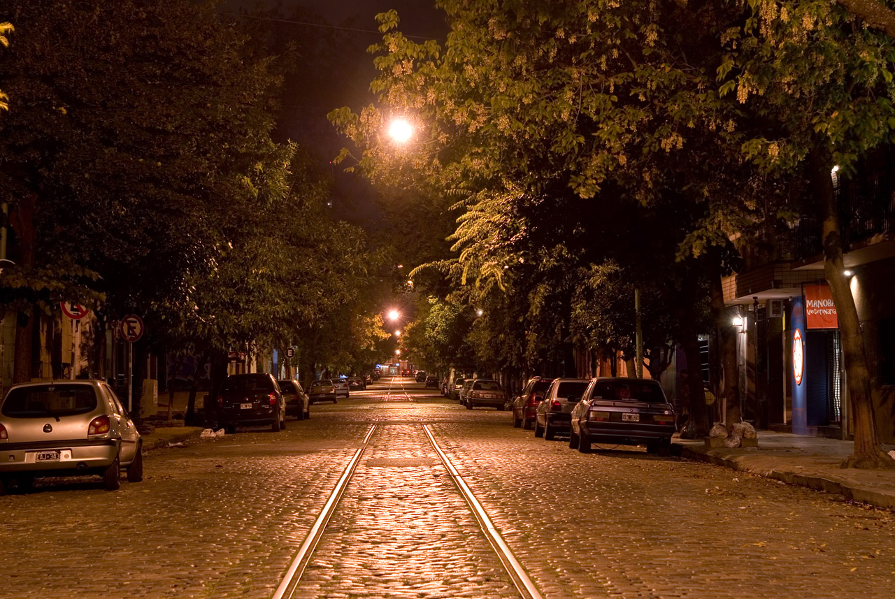 Calle Nicaragua to 4750 (between Borges and Gurruchaga), Buenos Aires, Argentina. Waiting for Tram activation